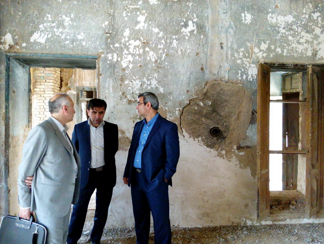 2015-06-28 18 Muzaffari,Governor of Nishapur visiting Qurayshi old mansion